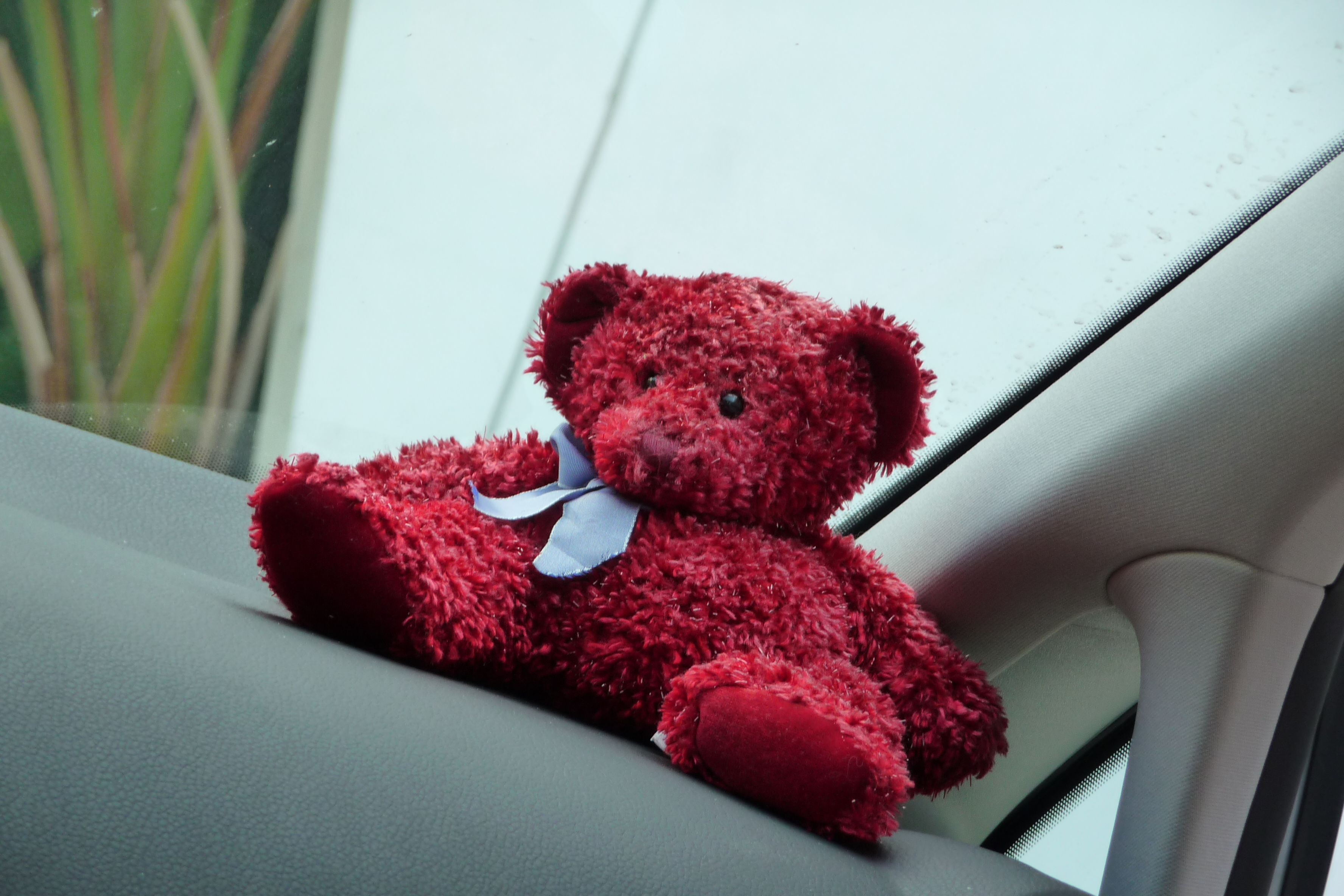 Red toy bear